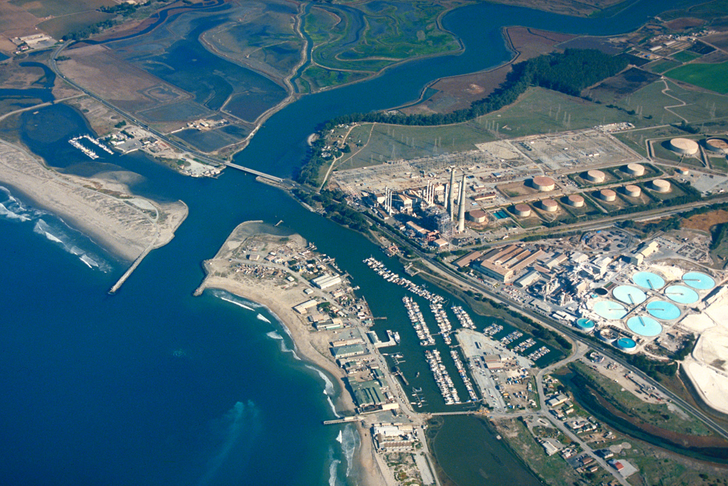 Aerial view of Moss Landing, Monterey County, California, USA. The Elkhorn slough runs the area and about 6 miles (8 km) inland. The huge Moss Landing Power Plant is visible at the center. Coordinates: 36°48′21.95″N 121°46′57.55″W / 36.8060972°N 121.7826528°W